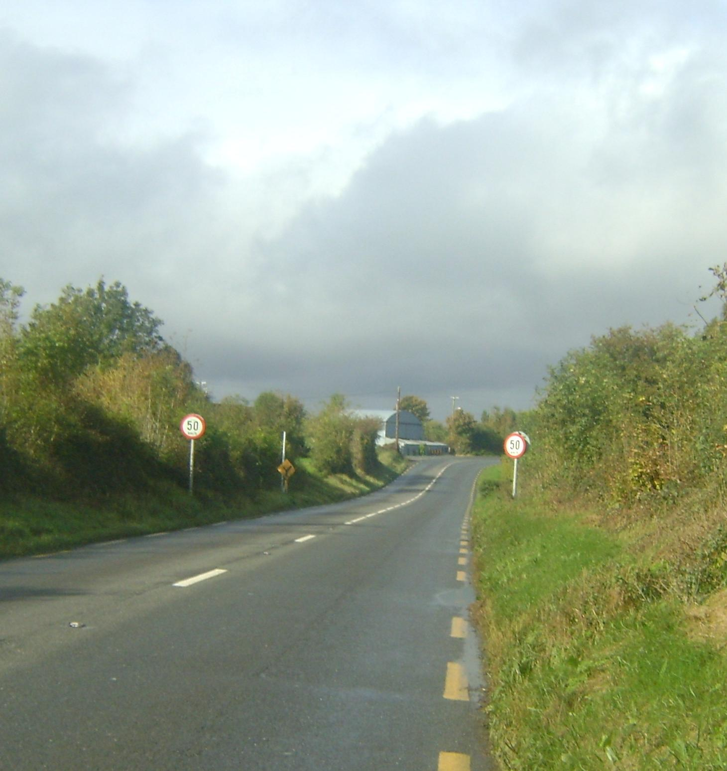 Photo of enterance to Bouladuff, Co Tipperary, Republic Of Ireland